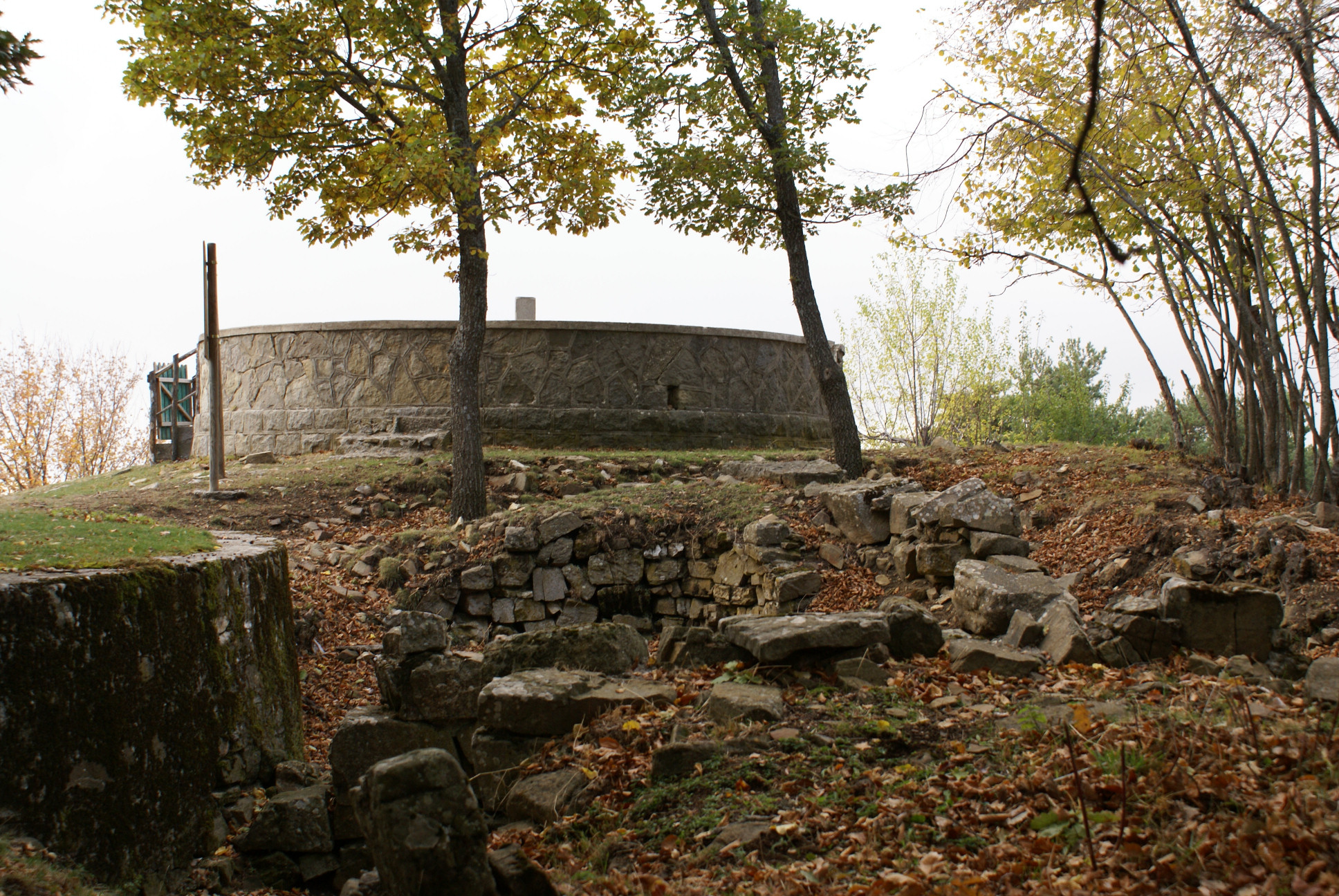 The VI Century b.C. Castellaro (kind of stronghold of Ligurian People), and top of Mount Bignone, near Sanremo - Italy